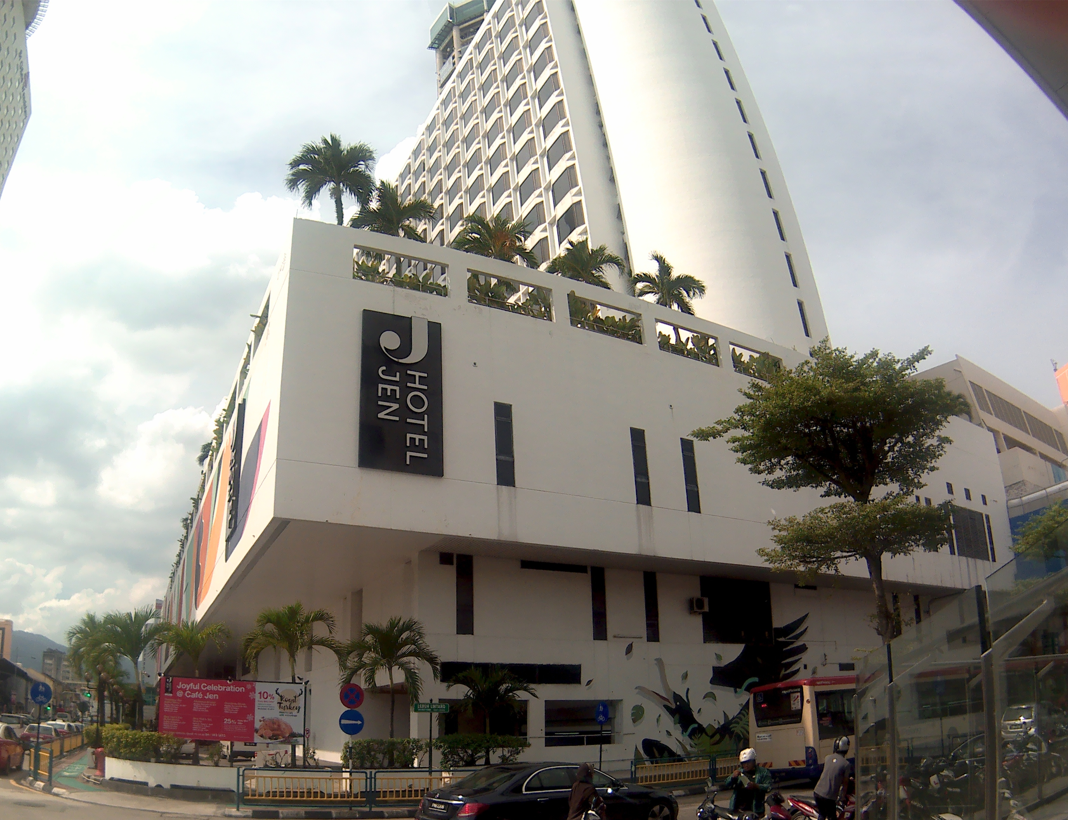 Jen Hotel Penang